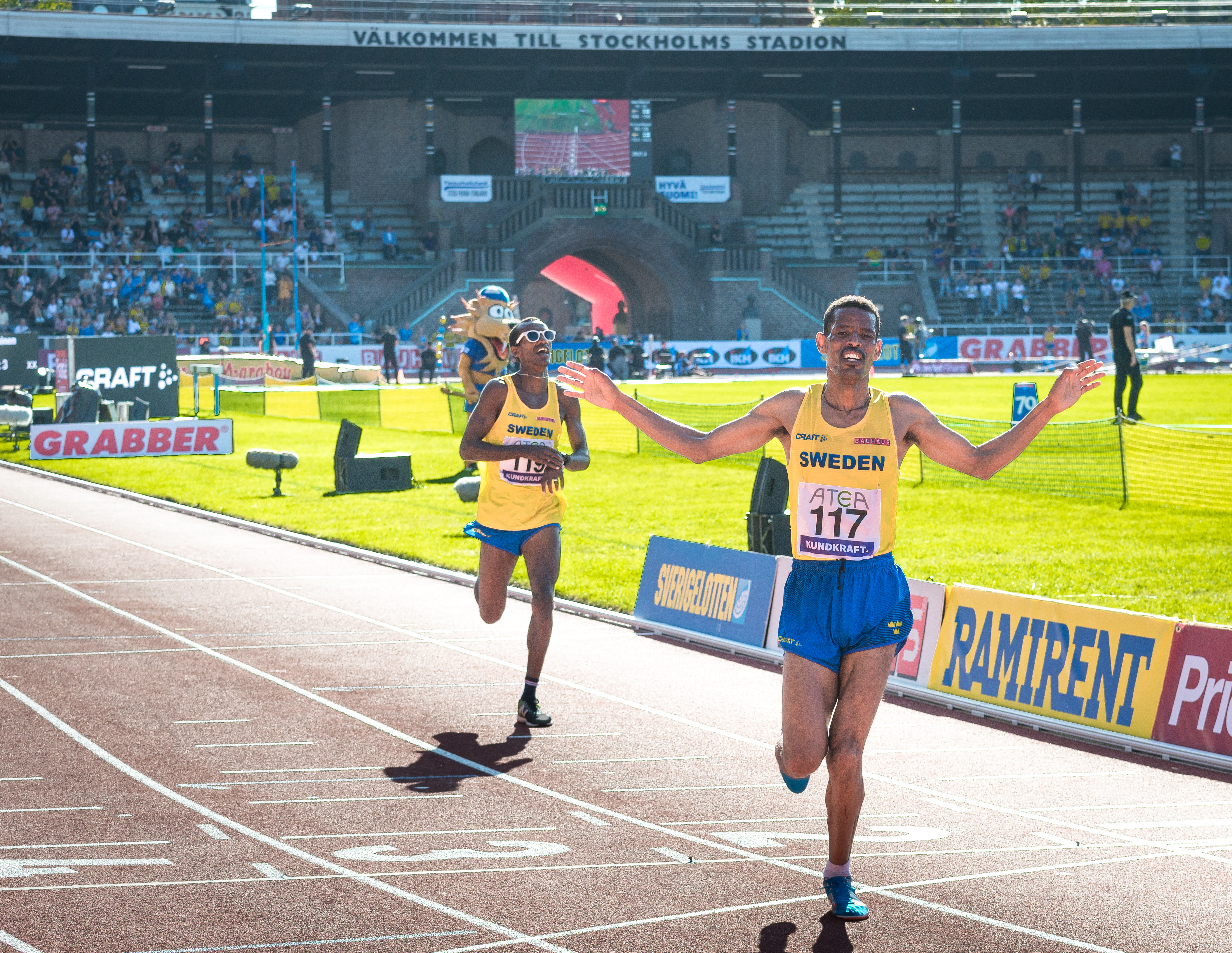 Adhanom Abraha wins the Finland-Sweden athletics international 2019 at the Stockholm Stadium in August 2019.